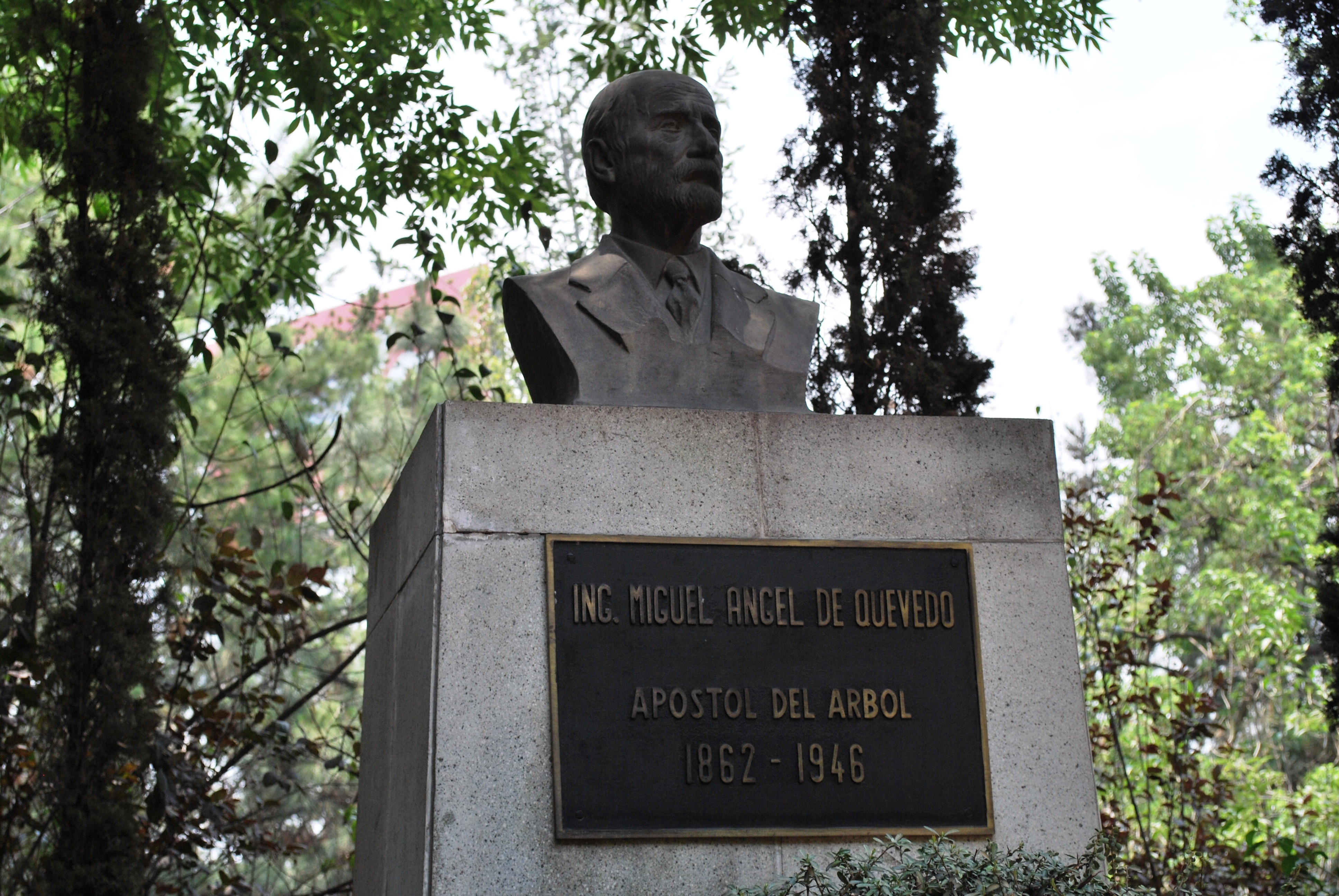 Bust of Miguel Angel de Quevedo located in the Viveros de Coyoacan park and plant nursery in Coyoacan borough in Mexico City